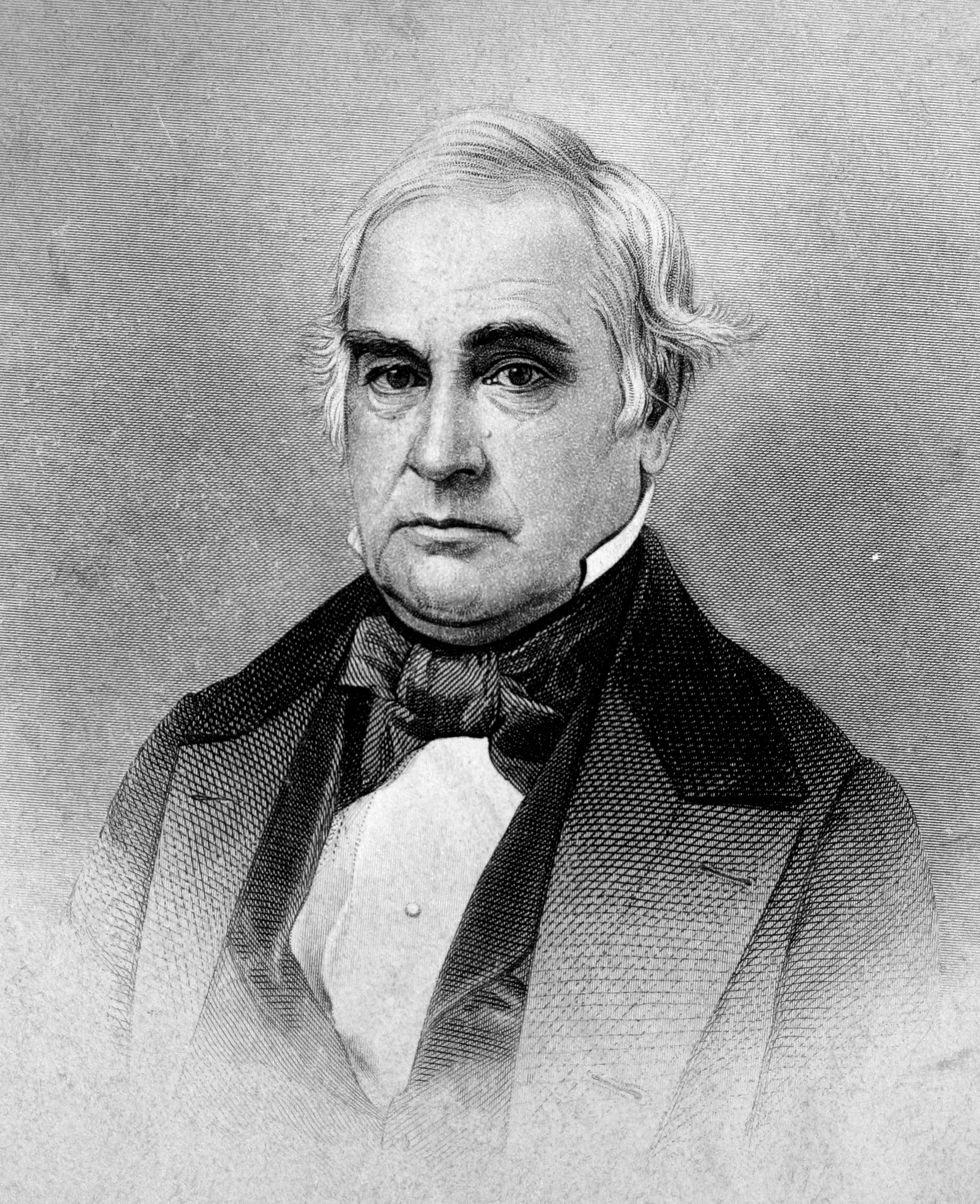 Lincoln Clark (Iowa Congressman)